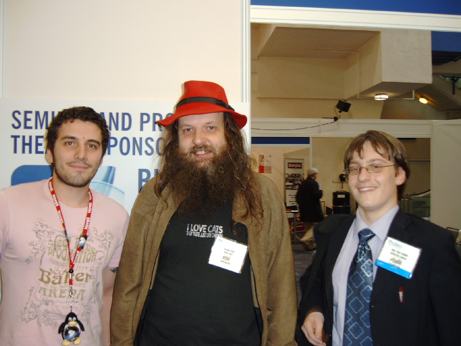 Linux kernel developer Alan Cox (centre) at the LinuxWorldExpo, 5th October 2005. Copyright I created the image, it was taken with my camera.